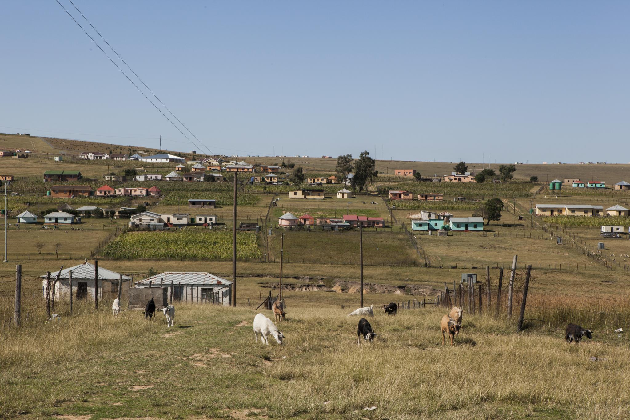 Qunu